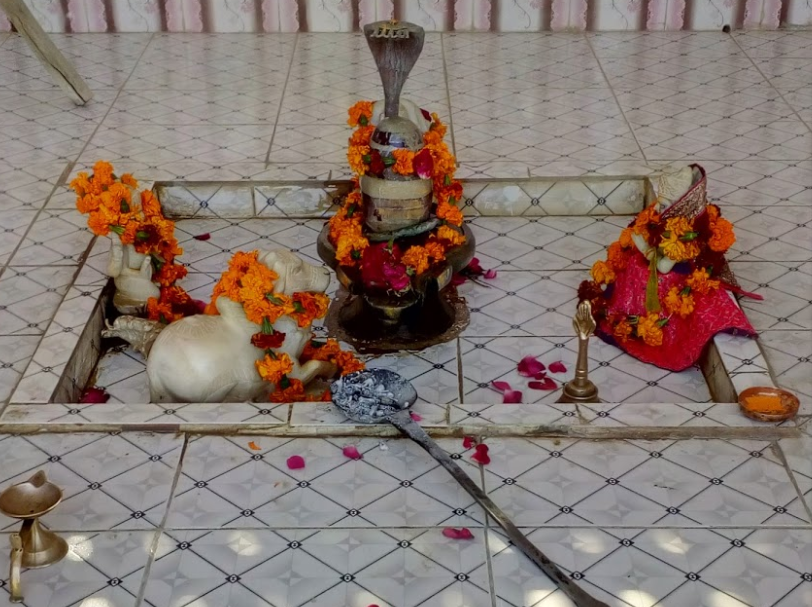 Temple in Awandiya Village of Jaipur district